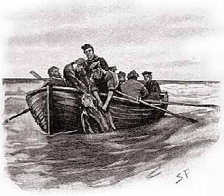 Ilustration of "The Adventure of the Gloria Scott", which appeared in The Strand Magazine in April, 1893. Original caption was WE PULLED HIM ABOARD THE BOAT."